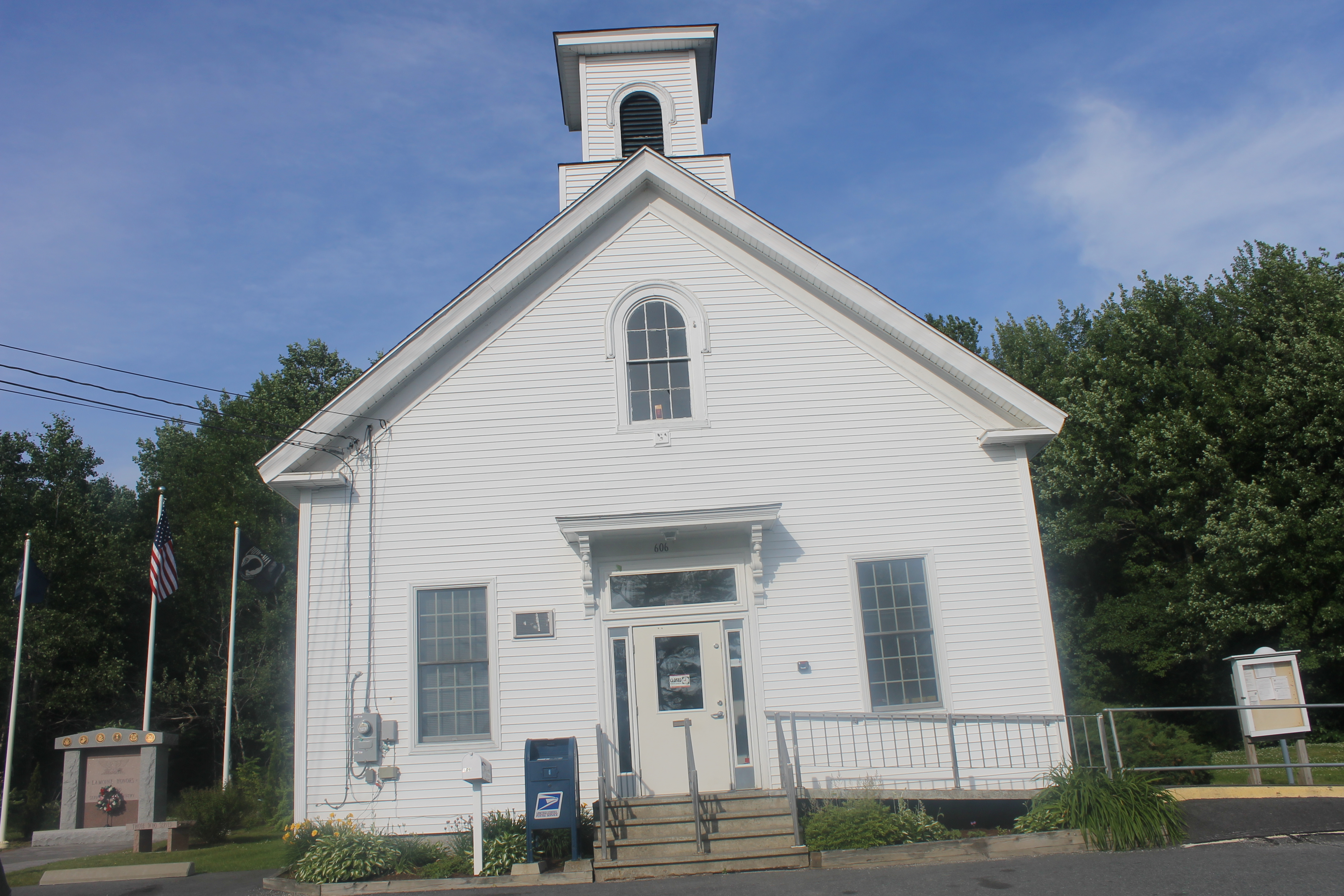 I took photo of Lamoine Town Hall and nearby Veterans Monument in Lamoine, ME, with Canon camera.